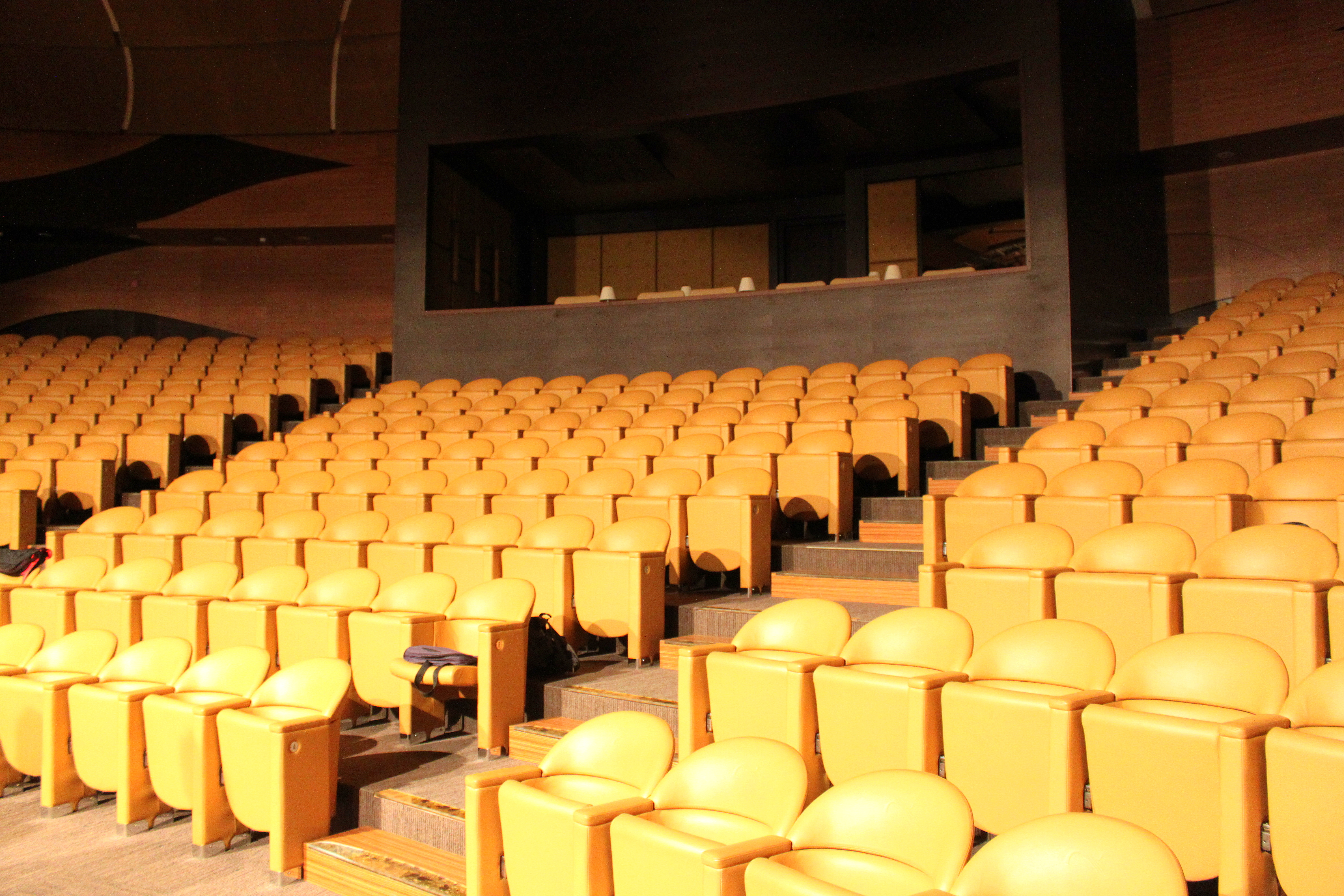 International Mugam Center of Azerbaijan.